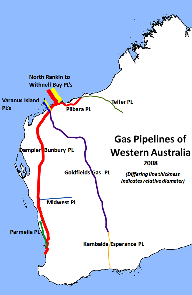 Approximate locations and relative diameter of major gas transmission pipelines in Western Australia